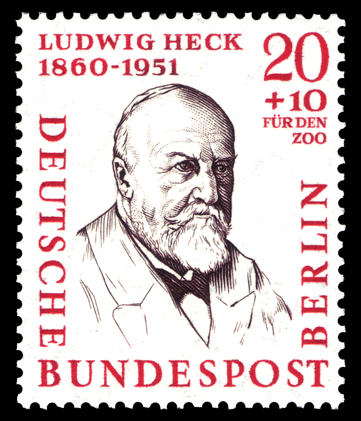 stamp series, men of the history of Berlin II, Ludwig Heck, (1860-1951), the only stamp in this set with additional fee for the Berliner Zoo